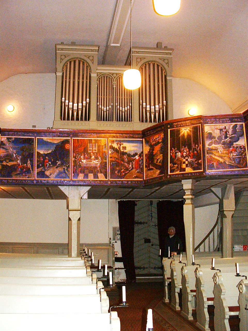 Protestant Church Kleinich (Mosel) Rhineland-Palatinate, Germany, organ